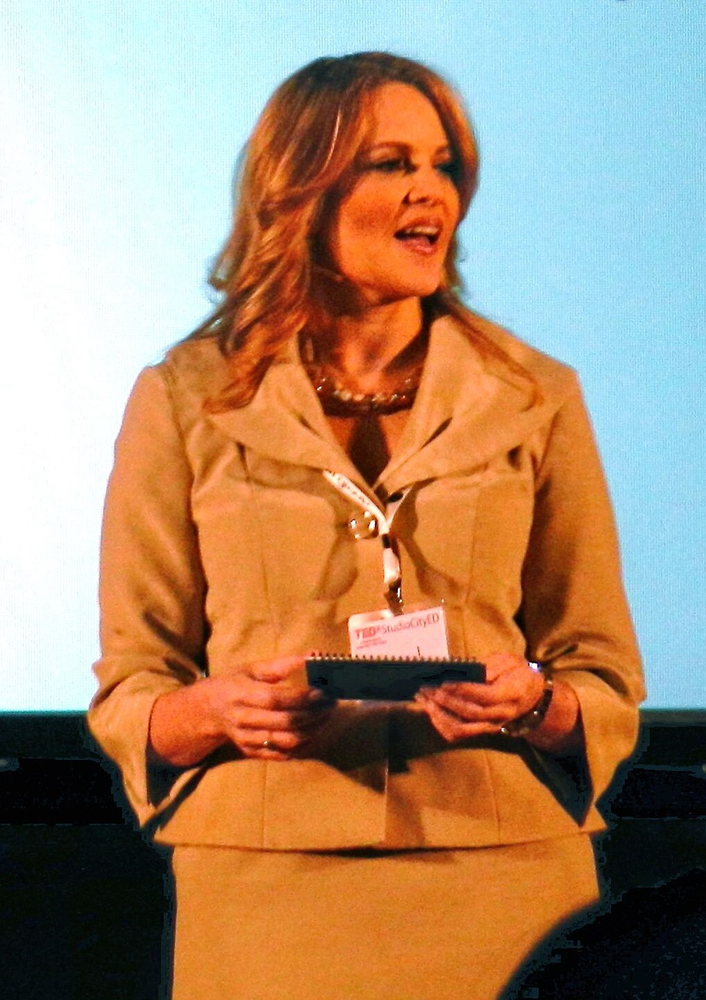 Dr. Cheryl Arutt speaking at TEDxStudioCityED, a live event about self-regulation, trauma and creativity